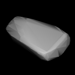 3D convex shape model of 1069 Planckia, computed using light curve inversion techniques. J. Hanuš, J. Ďurech, M. Brož, B. D. Warner (June 2011). "A study of asteroid pole-latitude distribution based on an extended set of shape models derived by the lightcurve inversion method". Astronomy and Astrophysics 530: A134. ISSN 0004-6361. arXiv